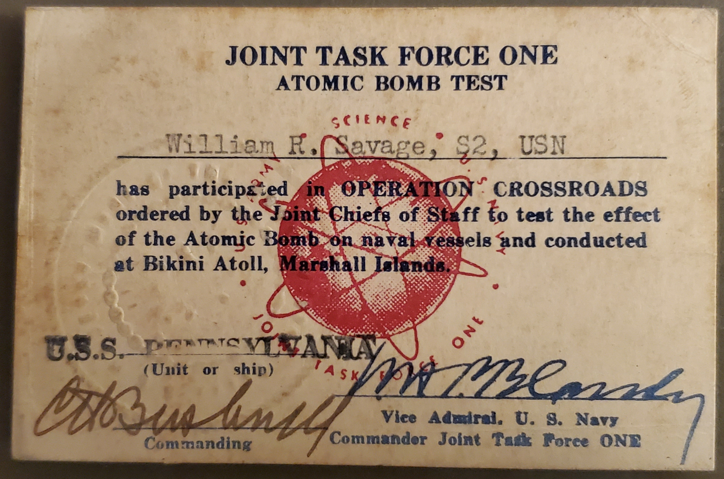 ID Card